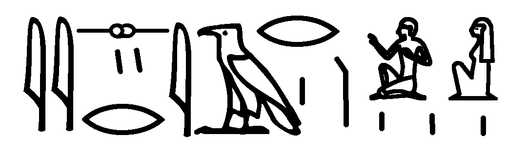 Merenptah Stele (Israel Stele): the name Israel written in hieroglyphs as it appears on the stele (mirror view) in line 27 (context: Israel is laid waste, his seed is not). Transliteration: y-z-y-r-j-A-r (pair of reeds-door bolt-pair of strokes-mouth-reed-Egyptian vulture-mouth) plus determinatives: enemy-people (throwing stick-man, woman, three strokes). Read as Ysyriar as Egyptians did not differentiate r from l. Determinatives suggest a nation without a state, king or official authority of its own.